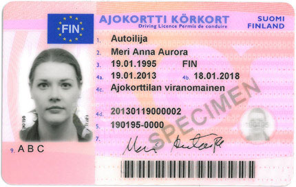 Specimen for the European driving licence used in Finland since 2013, front side